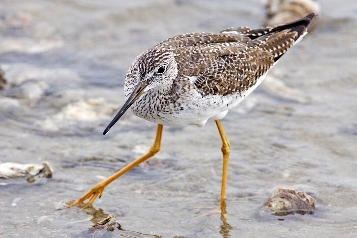 Immature Greater Yellowlegs, Fishing Pier, Goose Island State Park, Texas